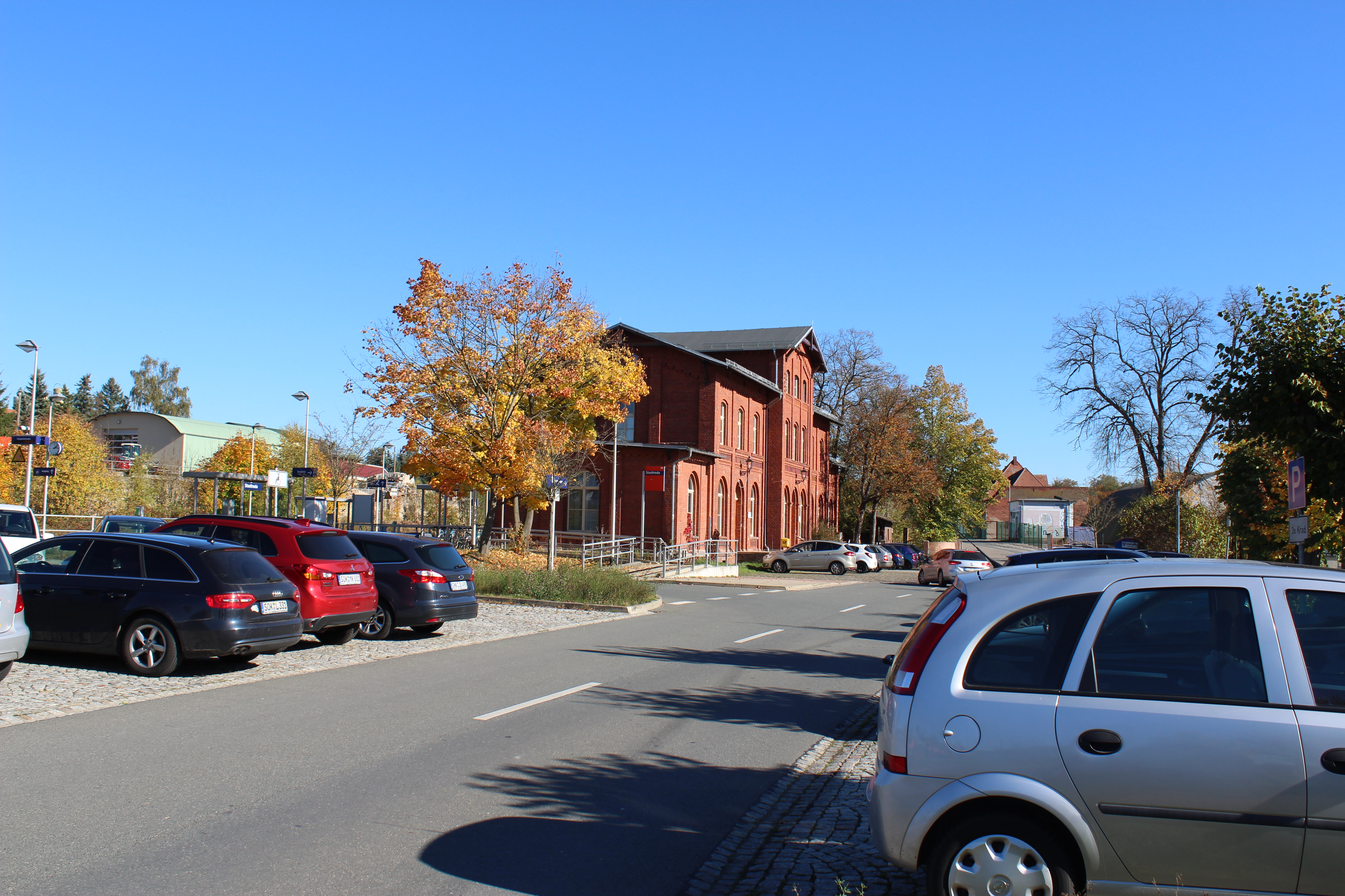 train station Stadtroda, station building